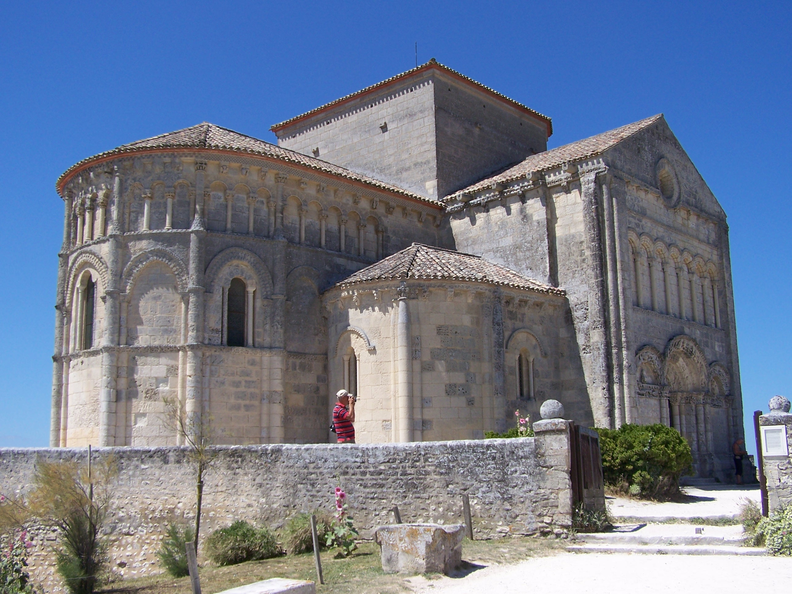 Church of Talmont-sur-Gironde (Charente-Maritime, France)